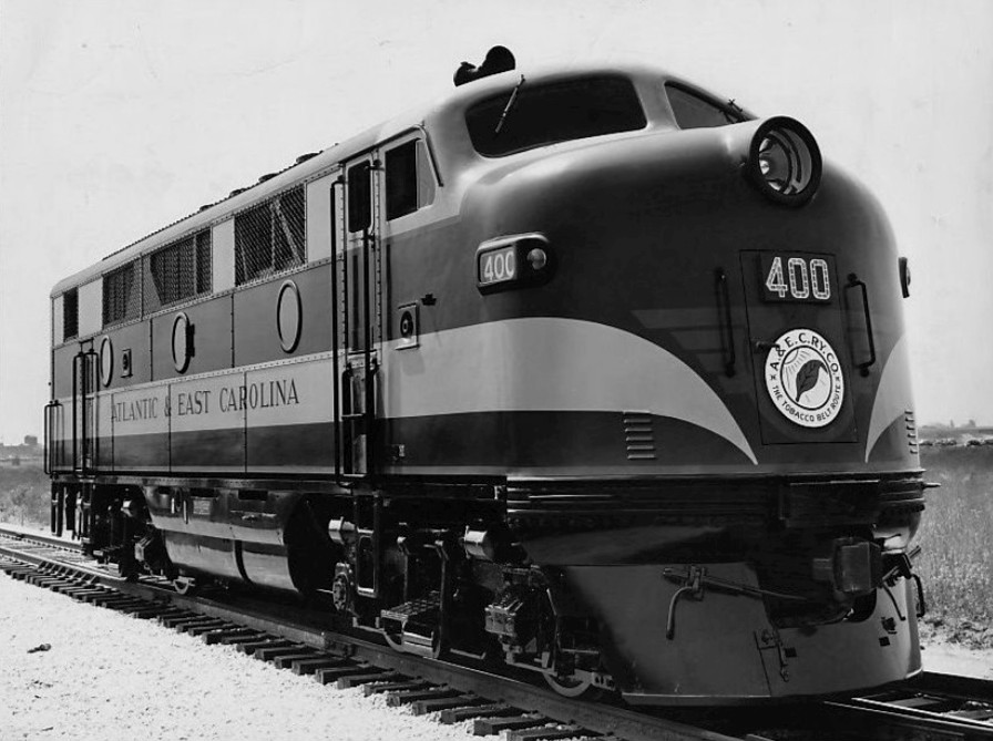 Photo of an EMD F2 locomotive bought by the Atlantic and East Carolina Railway in 1946.